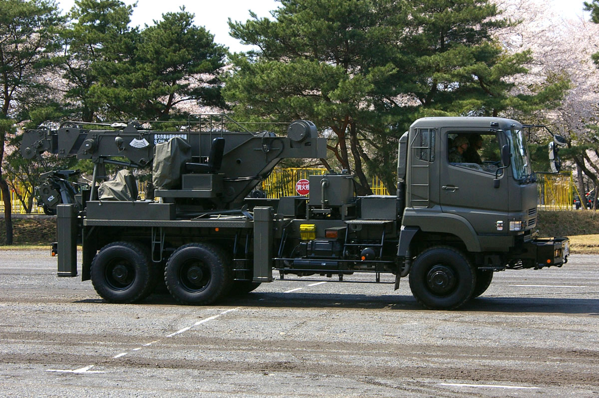 Taken by Los688,8-Apr-2007,JGSDF Camp-Utsunomiya.JGSDF heavy wrecker,4th Engineer Group.PD-self. ja:2007年4月8日、投稿者撮影。陸上自衛隊宇都宮駐屯地記念行事。第4施設群、重レッカ。